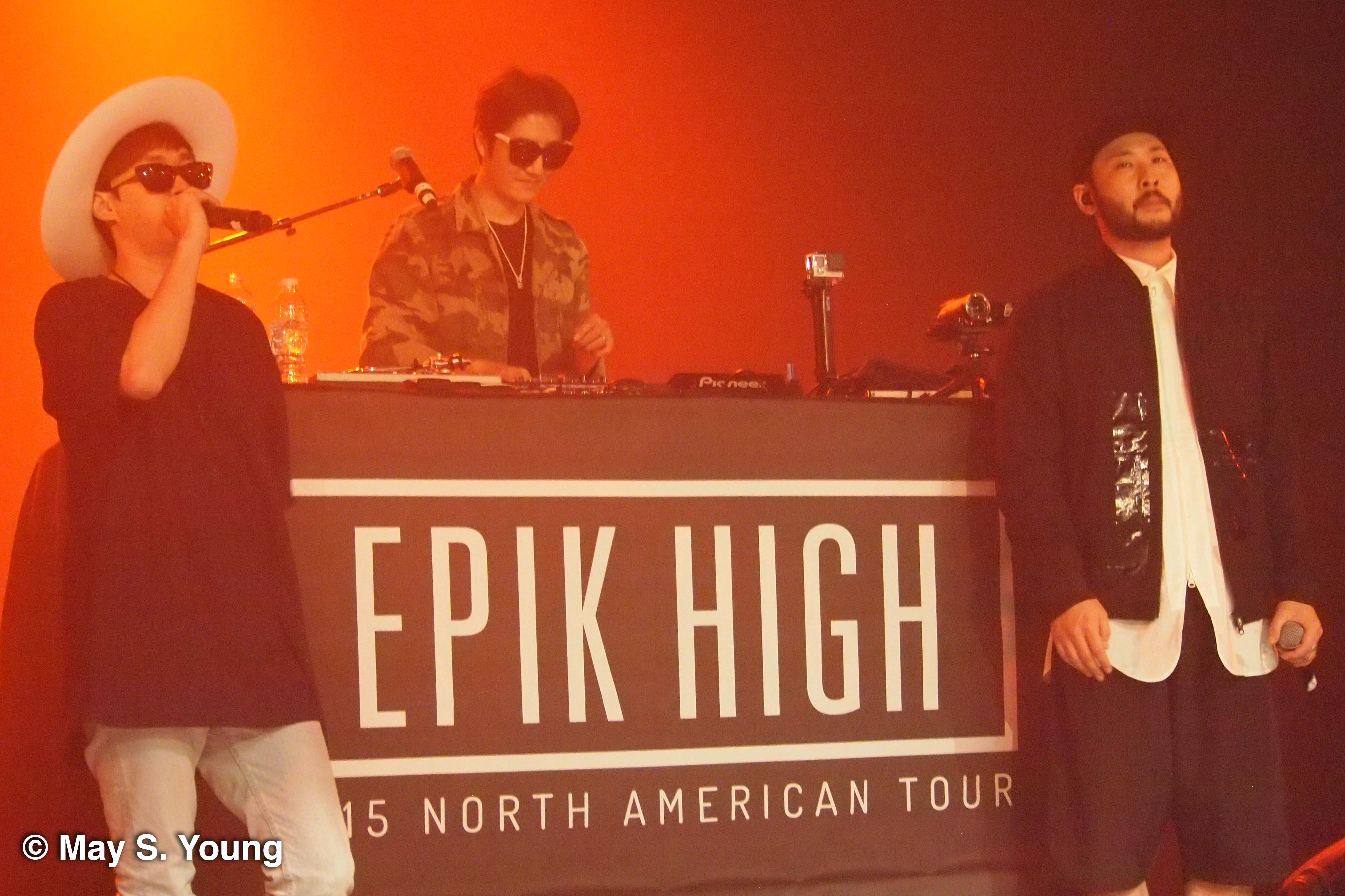 OLYMPUS DIGITAL CAMERA Epik High, Master Wu & DJ Soulscape at Best Buy Theater, New York City - 6/12/2015